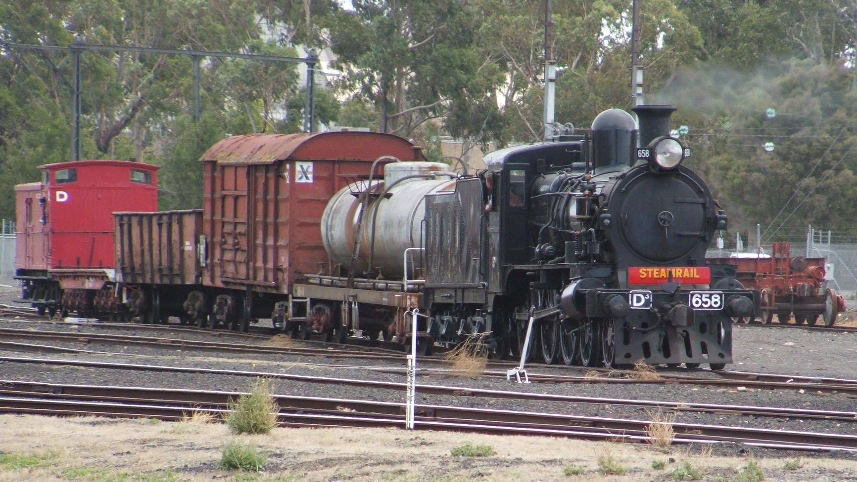 Victorian Railways D3 class 4-6-0 with a rake of historic goods carriages, Newport Worshops, Victoria, Australia, 12 March 2007